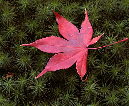 Cropped version of Image:LeafMoss0225.jpg I took this photo.